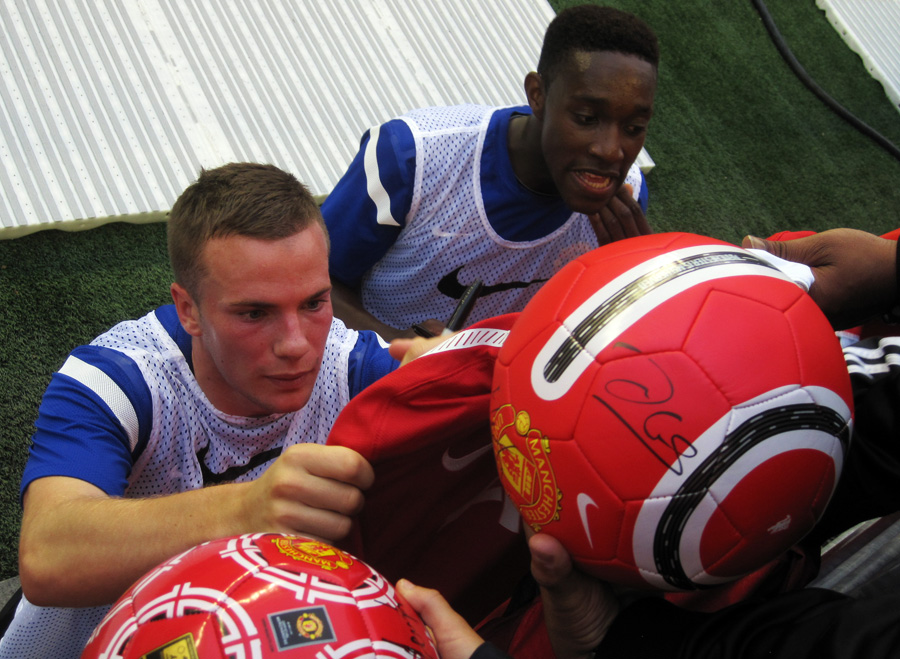 Tom Cleverley and Danny Welbeck in Seattle